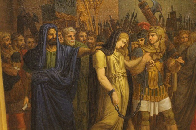 Zenobia, Queen of Palmyra